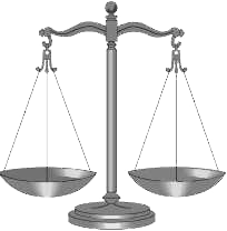 Scale of justice, Enhanced version of an image taken from The original image was a work of the United States Government, thus it was public domain. Historic, not used anymore.